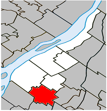 Location of Sainte-Julie, Quebec within Lajemmerais Regional County Municipality.